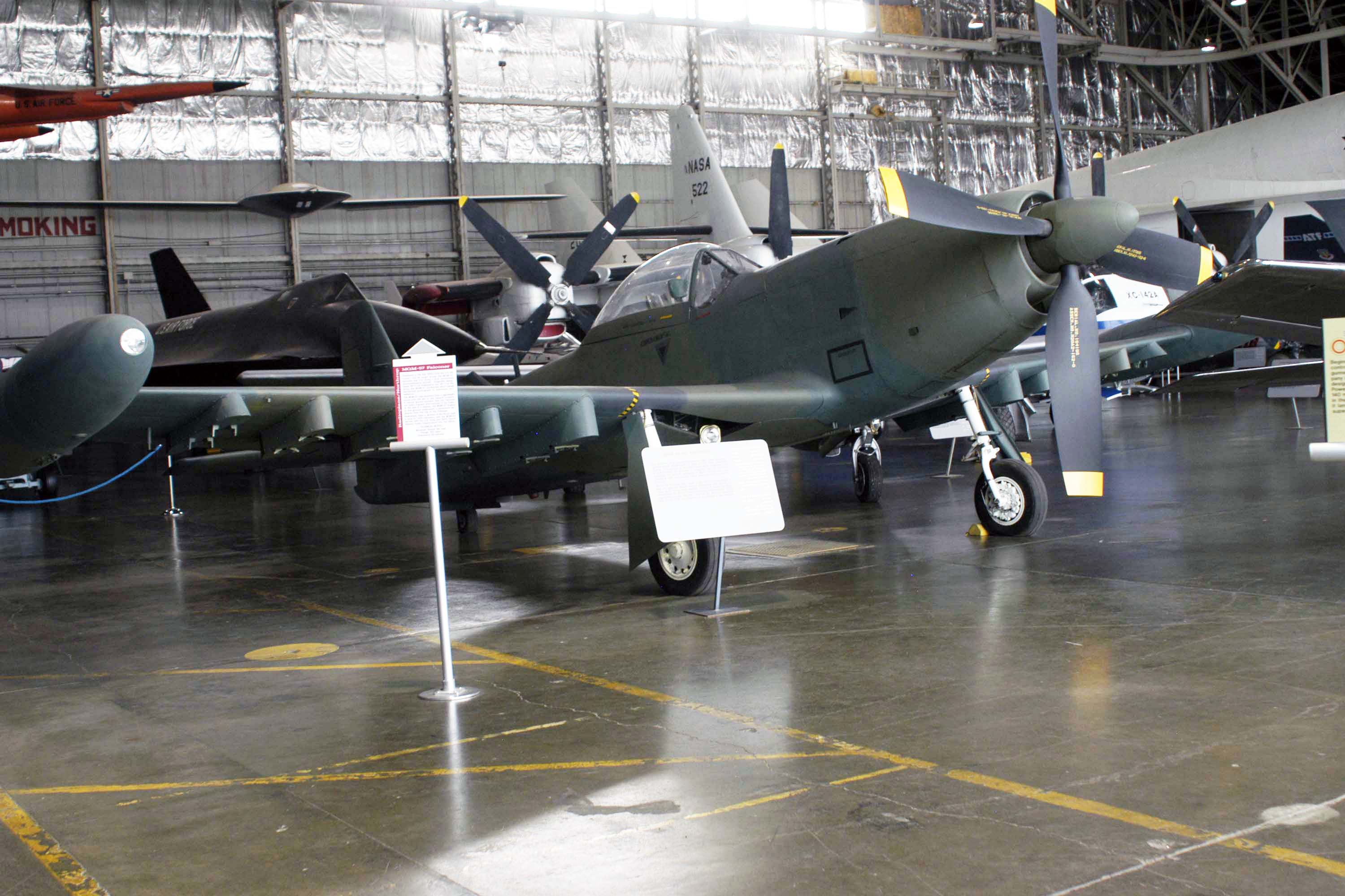 DAYTON, Ohio -- Piper PA48 Enforcer in the Research & Development Gallery at the National Museum of the U.S. Air Force. (U.S. Air Force photo)